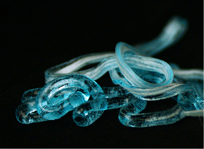 Monoprix shaving gel.